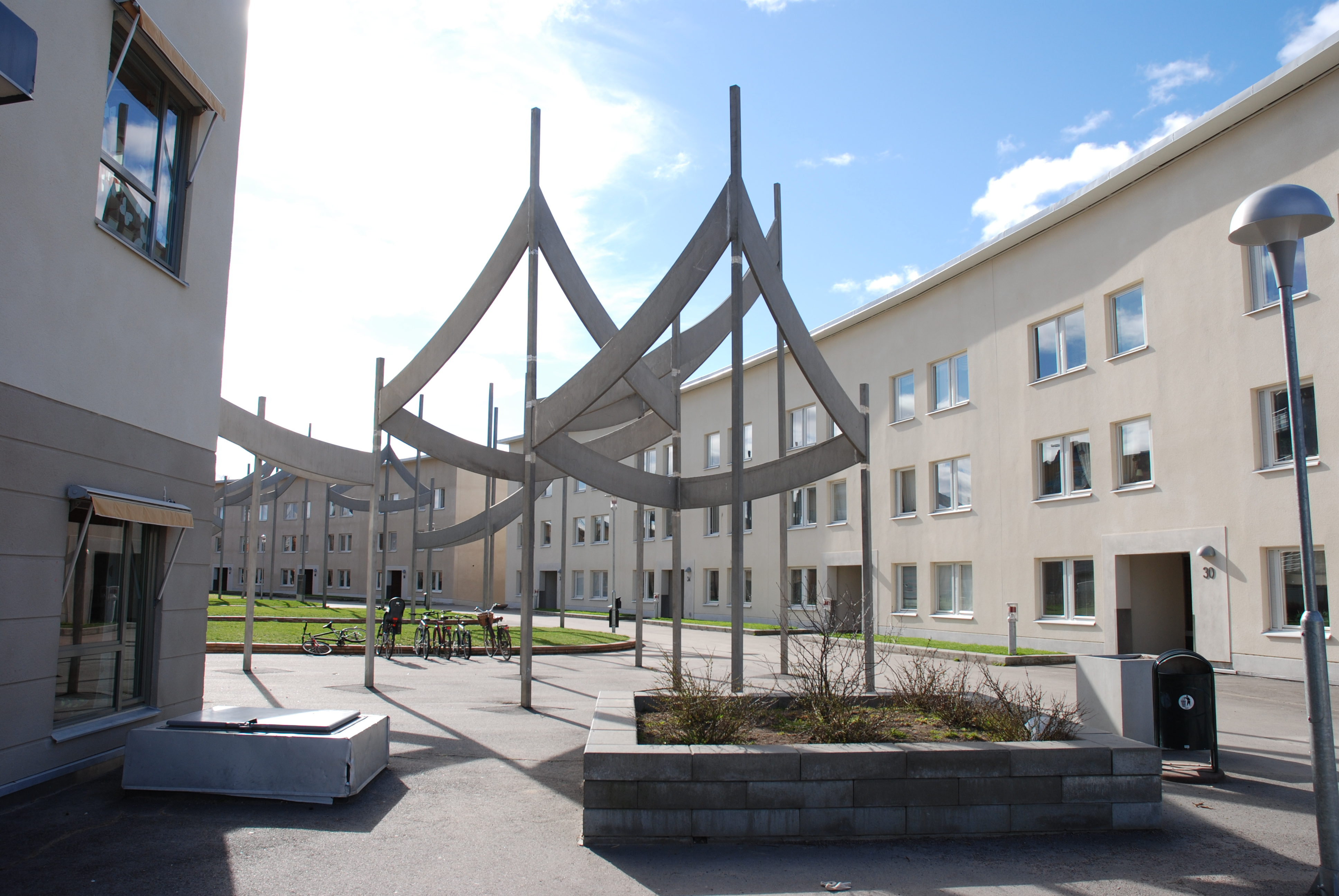 Einar Höste´s Varierad skålform, Norrköping, Sweden